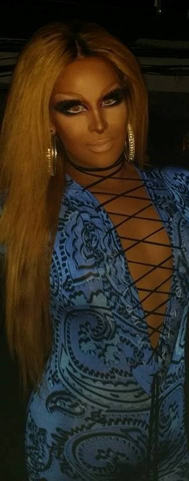 Roxxxy Andrews at her home club, Southern Nights, in Orlando, Florida.